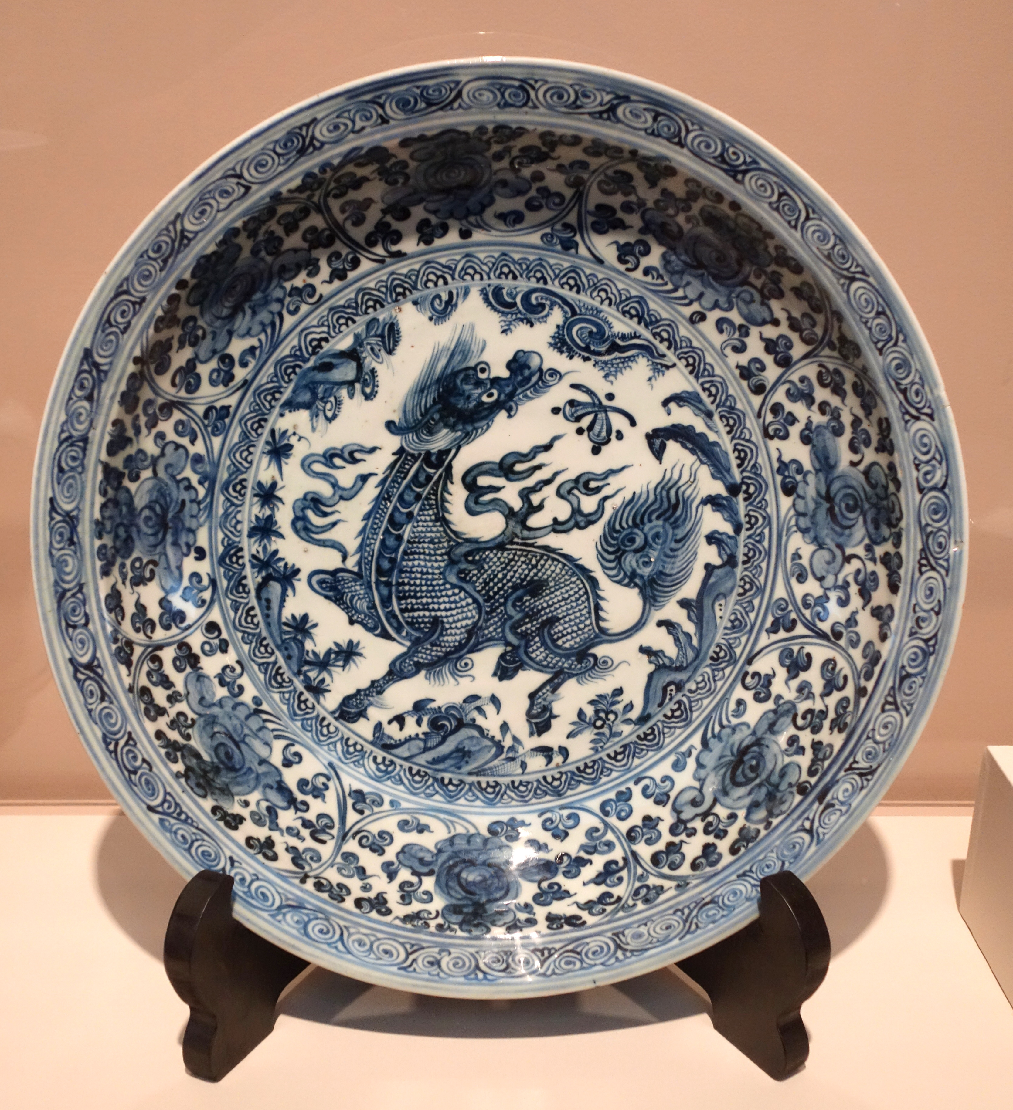 Exhibit in the Chazen Museum of Art, University of Wisconsin-Madison, Madison, Wisconsin, USA. This artwork is old enough so that it is in the public domain.